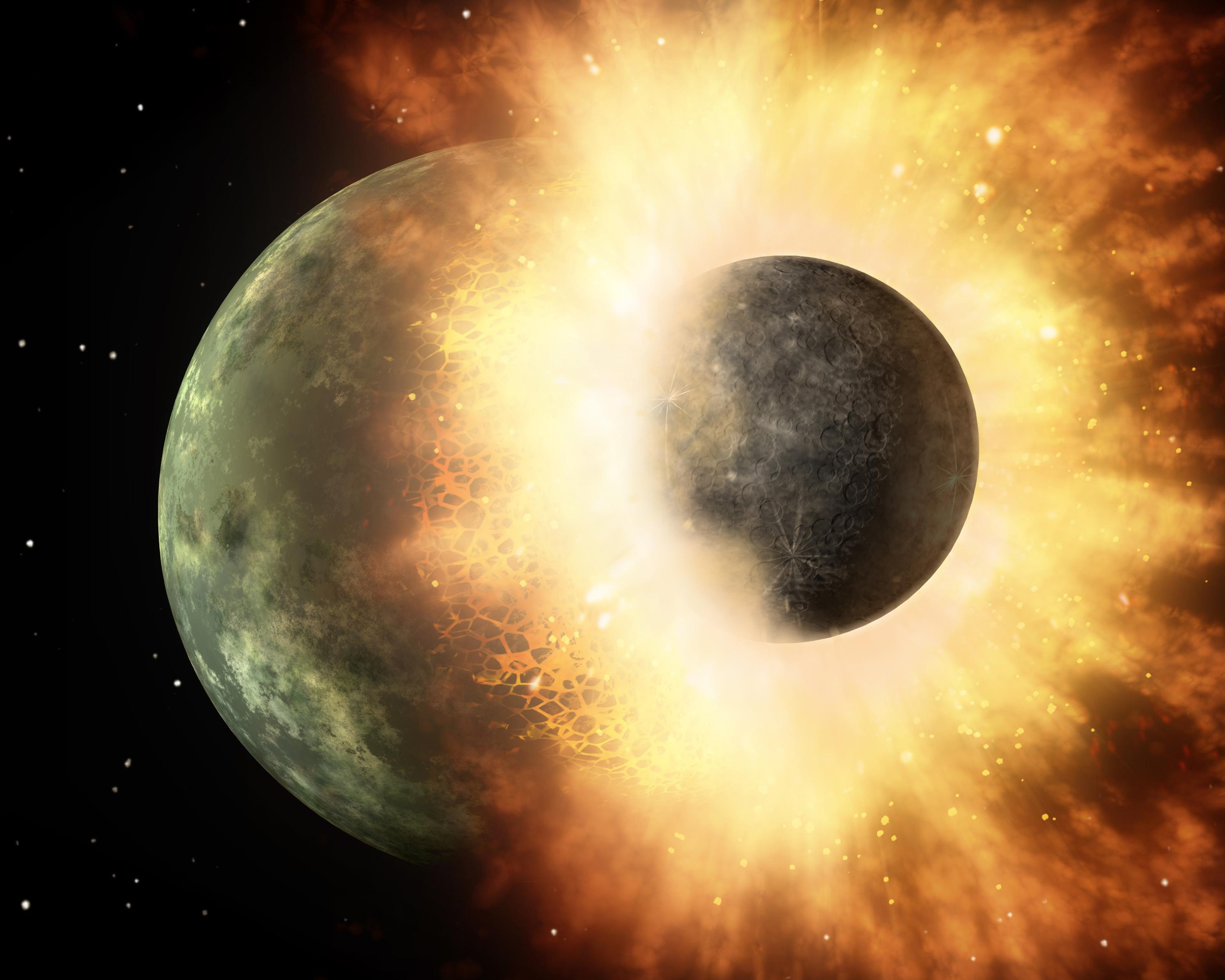 This artist's concept shows a celestial body about the size of our moon slamming at great speed into a body the size of Mercury. NASA's Spitzer Space Telescope found evidence that a high-speed collision of this sort occurred a few thousand years ago around a young star, called HD 172555, still in the early stages of planet formation. The star is about 100 light-years from Earth.